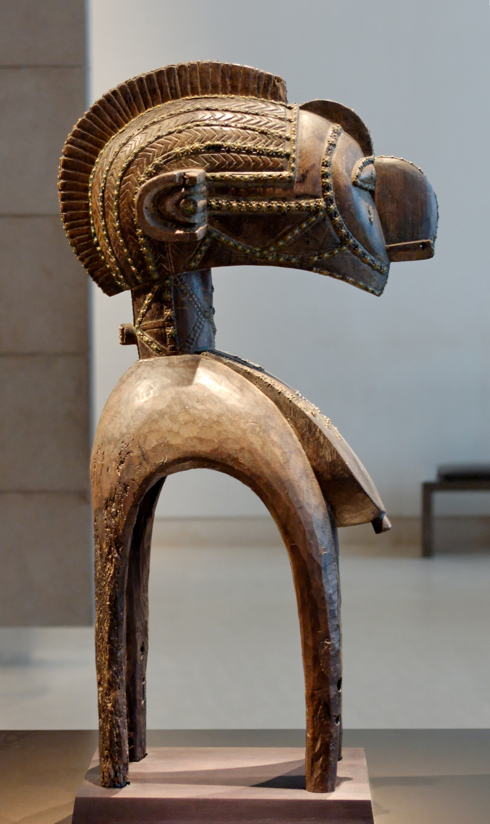 Shoulder mask nimba, representing a fertility spirit. Sculpture of the Baga people.